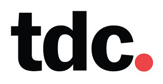 The official logo for the Type Directors Club